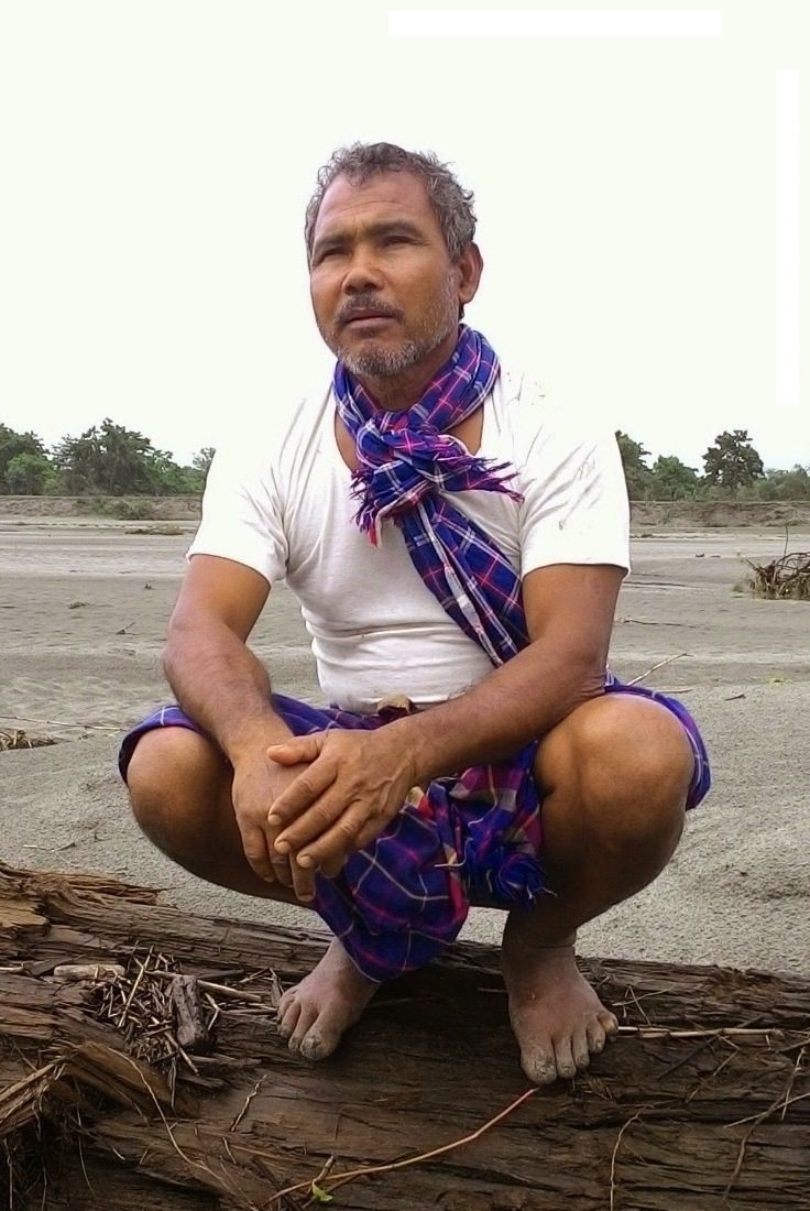 This is my own work and allow people for using it: - Official page administrator. In this picture you see Jadav is sitting in midst of Bramhaputra River sand bed on a huge trunk floated in waters due to rapid soil erosion of river islands.